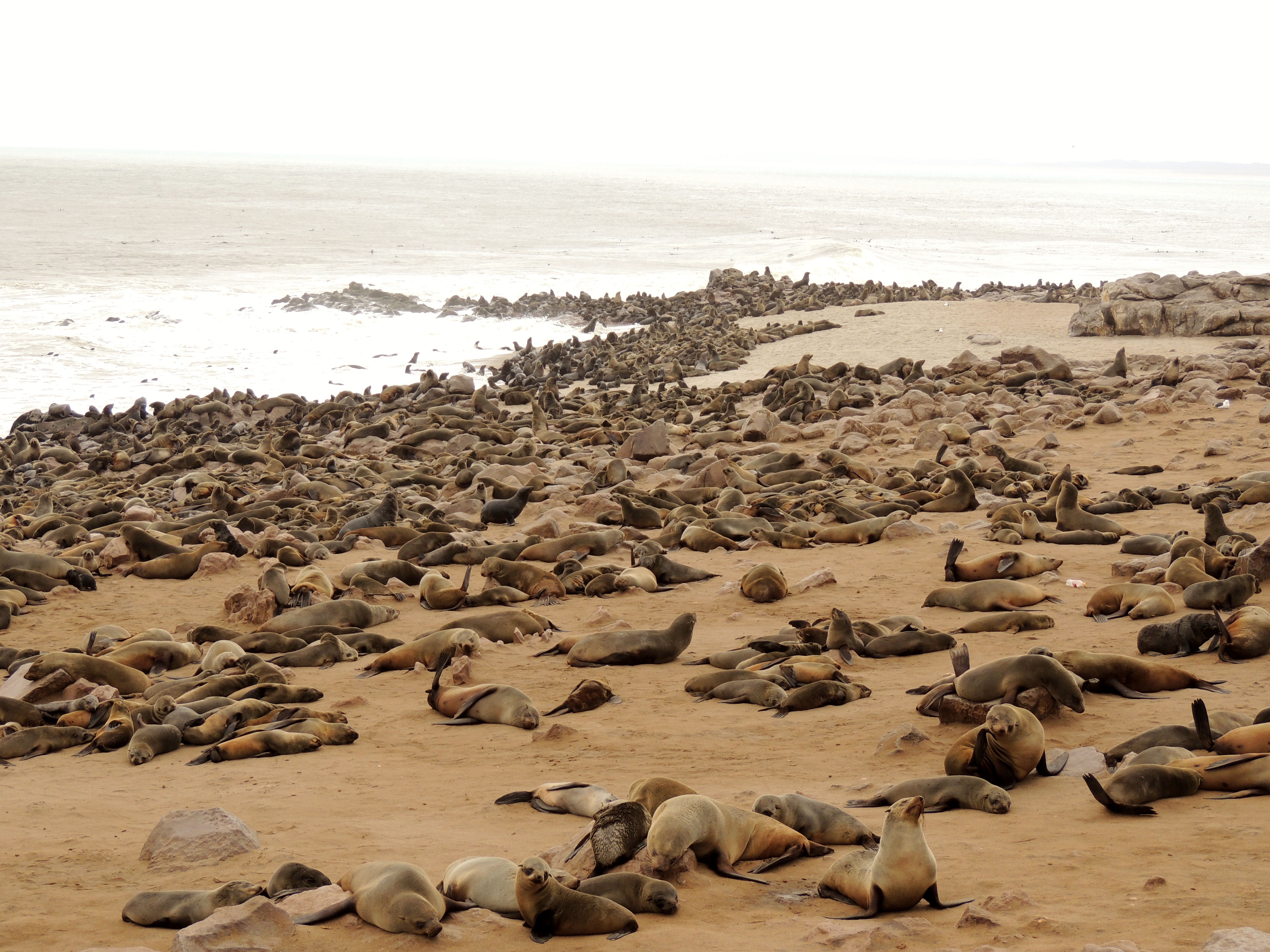 Arctocephalus pusillus 5 - Cape fur seal